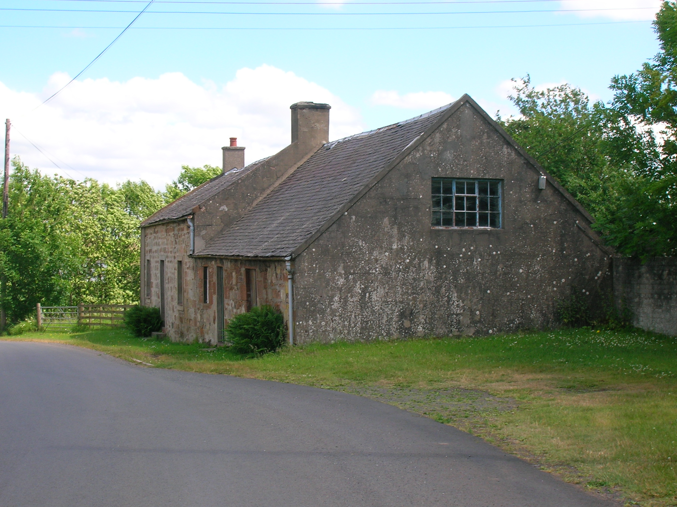 Fail Castle cottage on the site of part the old Monastery of Fail, South Ayrshire, Scotland.